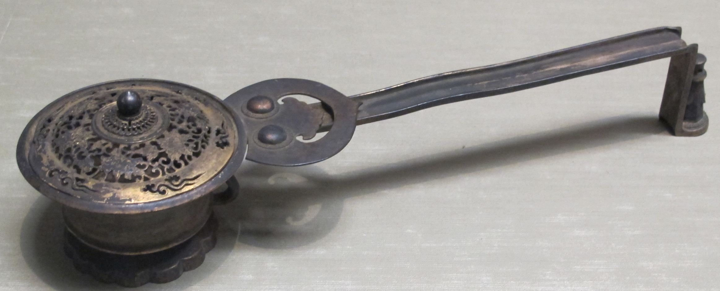 Incense burner with weighted handle, Kamakura period, 13th century, gilt bronze, Kongoji (Osaka), photographed while on loan to the Tokyo National Museum